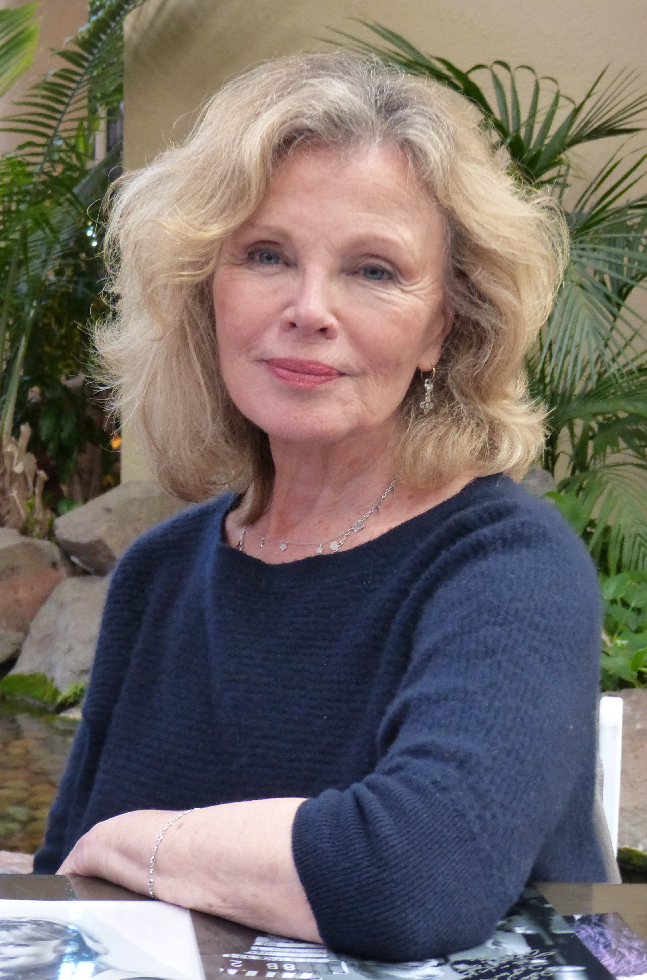 A photo of actress Marta Kristen.